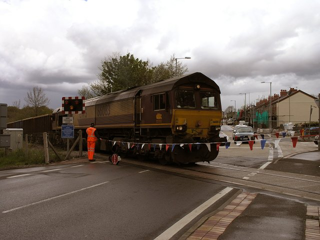 Gwaun-Cae-Gurwen level crossing You could be forgiven for thinking that bringing out the bunting at this level crossing is a celebration of the line's recent resumption of activity. However, this is actually how this level crossing works at present, with two railway engineers dropping stop signs on the road and then holding two strings of bunting across the road to prevent cars from crossing as the train traverses the road! The lights don't currently work and there have been some recent local worries about such a busy road not having gates.